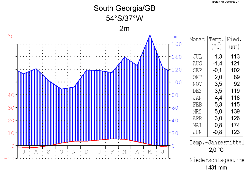 climate chart in the format by Walter and Lieth, metric, °Celsisus and millimeters, made with Geoklima 2.1